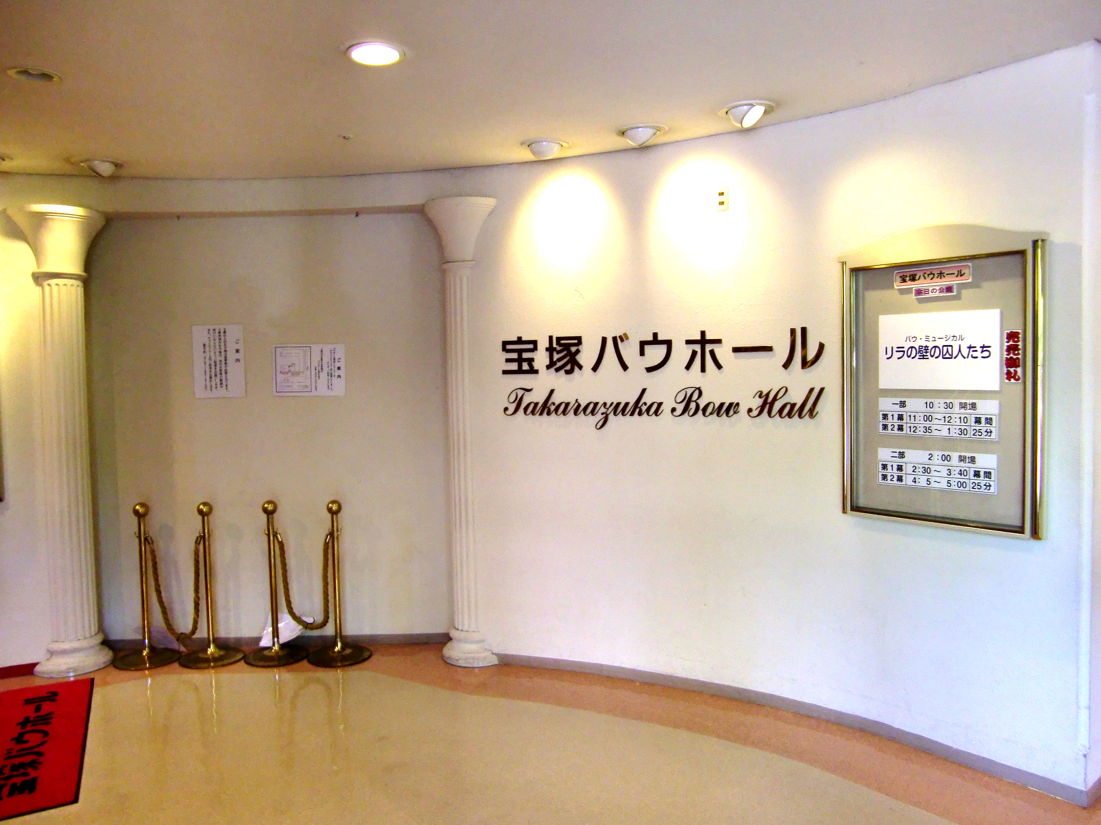 Takarazuka Bow Hall Entrance.JPG, 1-1-57 Sakaemachi Takarazuka-City Hyogo JAPAN.